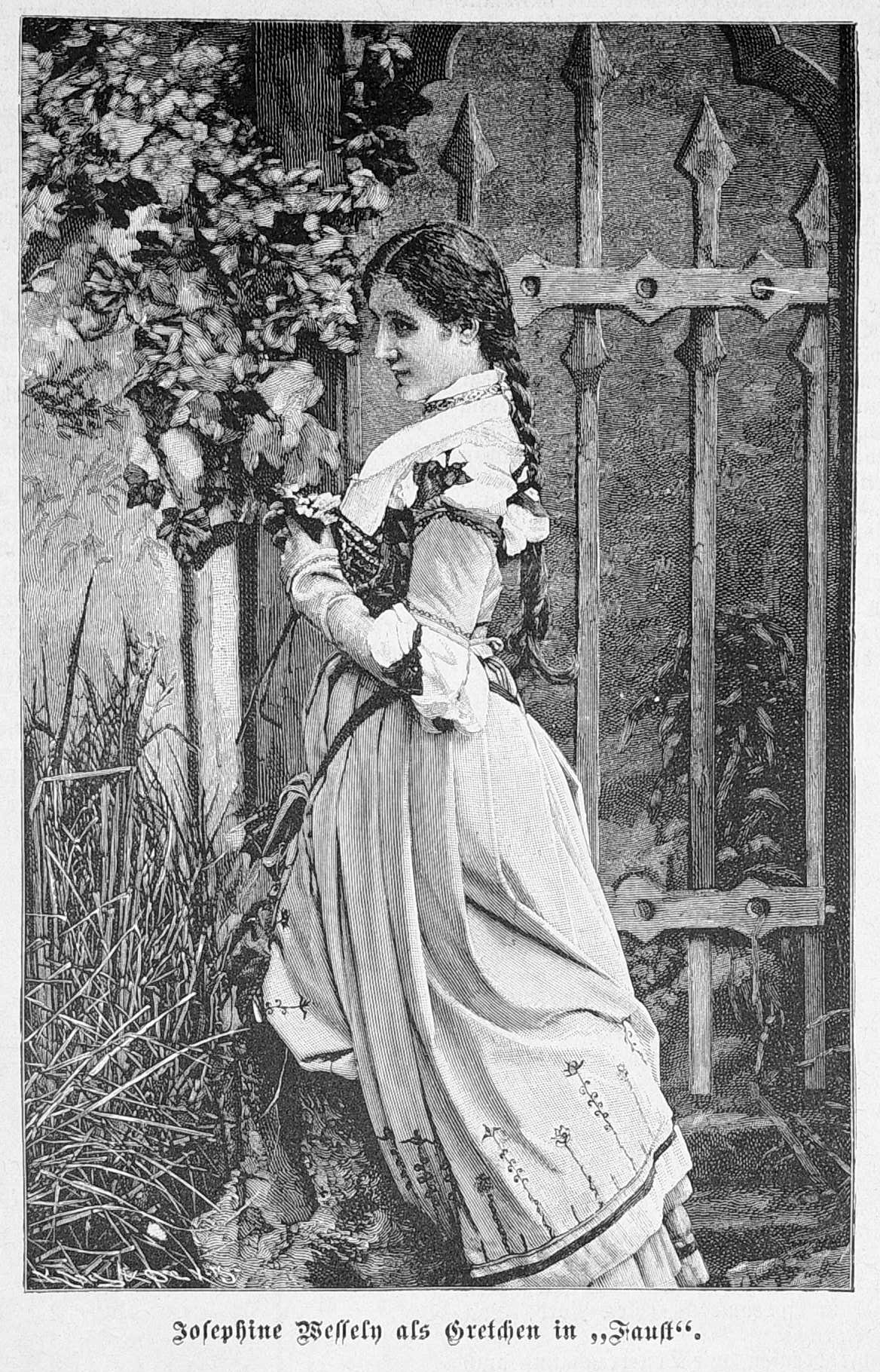 no caption